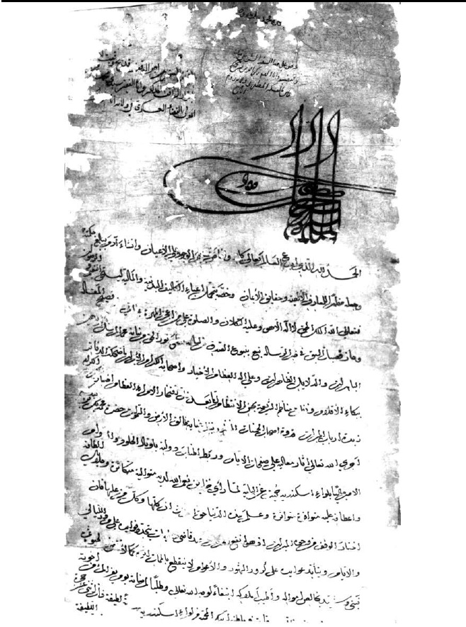 Vakufnama Mehmed-beg Obrenovic from 1516. Topkapı Müzesi Saray Arşivi, E4127, D7093